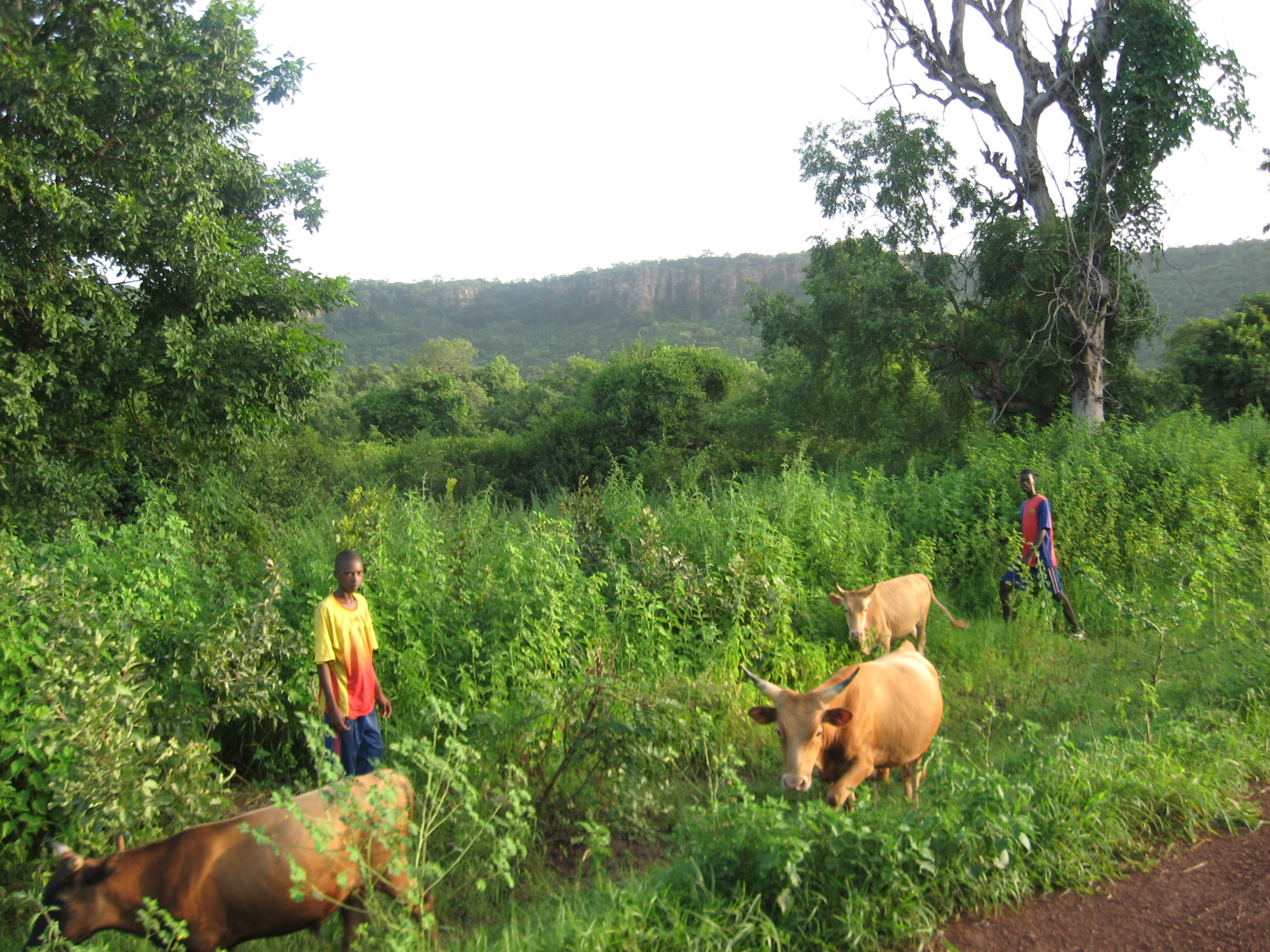 On the road to Dimboli (Kedougou region, Senegal)